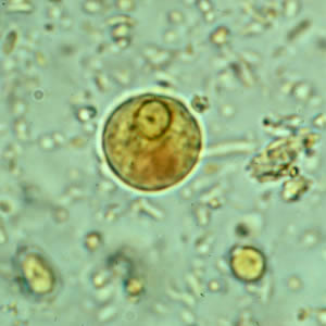 E. histolytica/E. dispar cyst in a concentrated wet mount stained with iodine. The cysts are spherical and often have a halo. The cyst appears uninucleate.